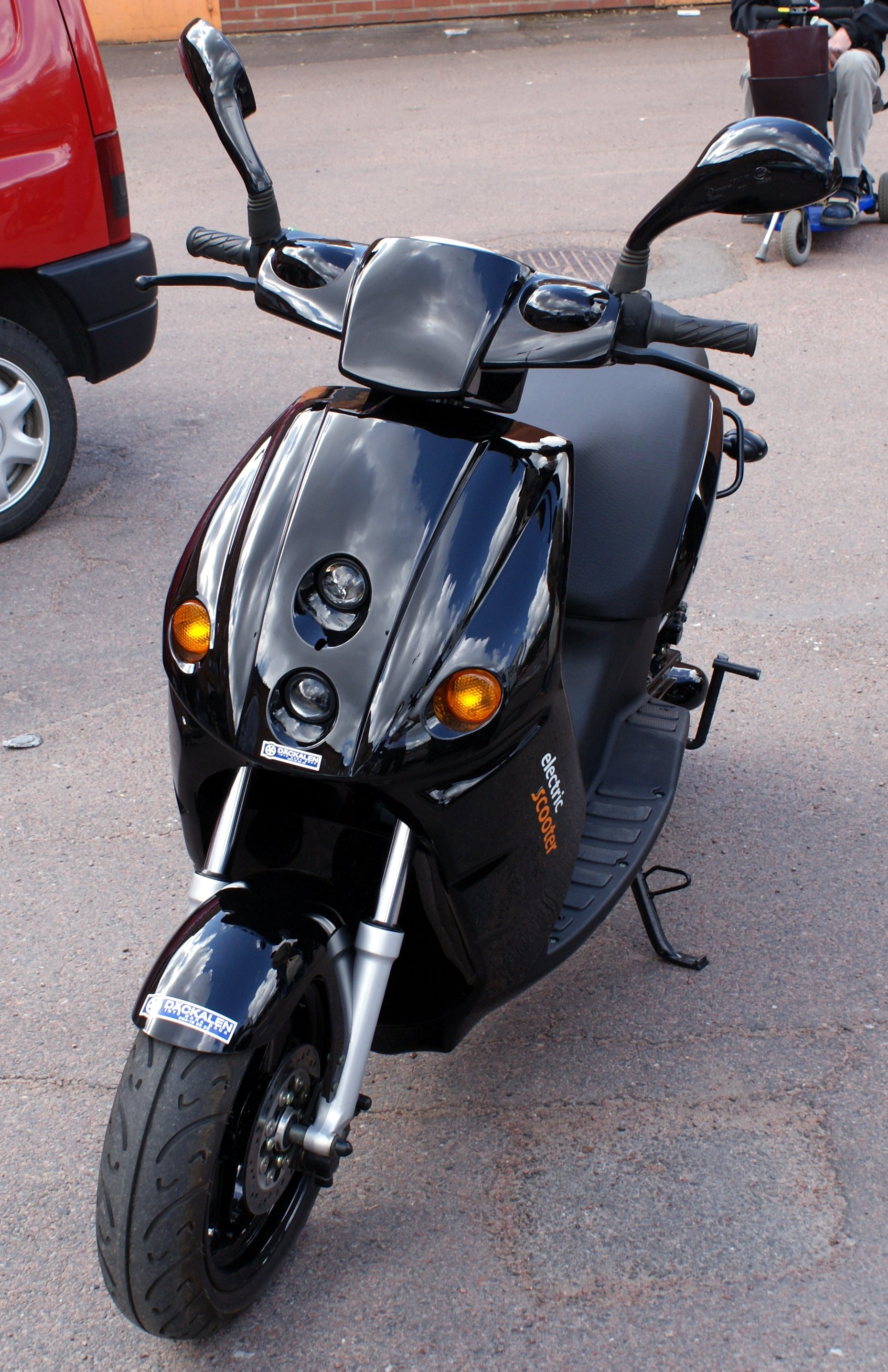 E.max electrical scooter